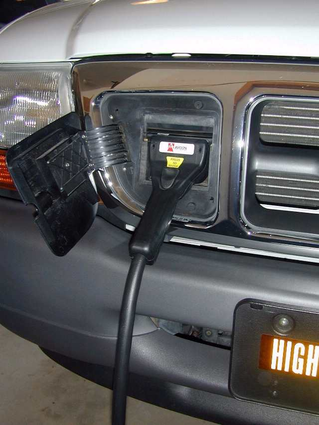 Ford Ranger EV - image by Geoff Shepherd, uploaded with permission by Leonard G., see Auston EV site and Geoff Shephard's Range EV Photo Album for source and other images.